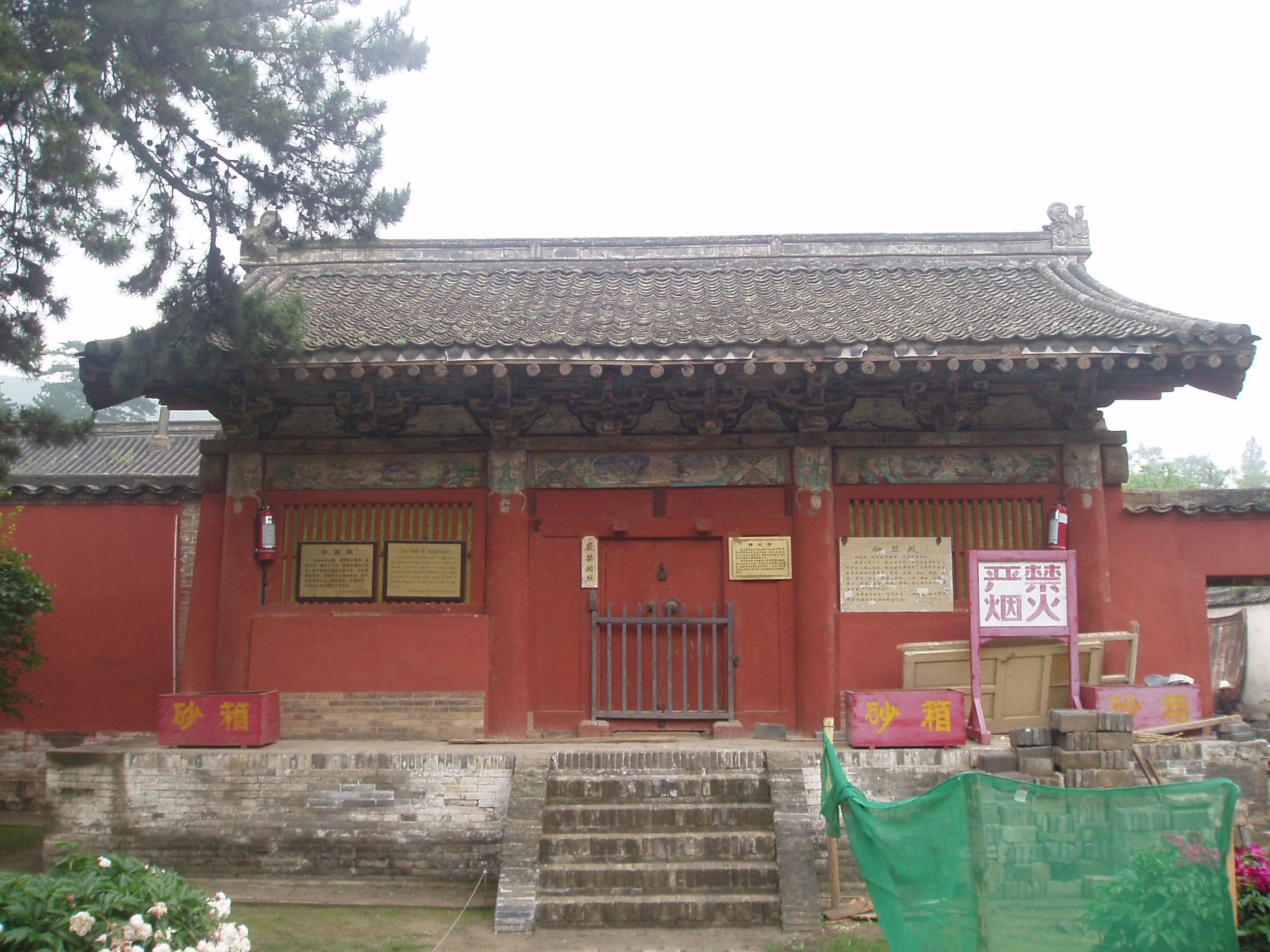 Sangahara Hall of the Foguang Temple in Shanxi, China.